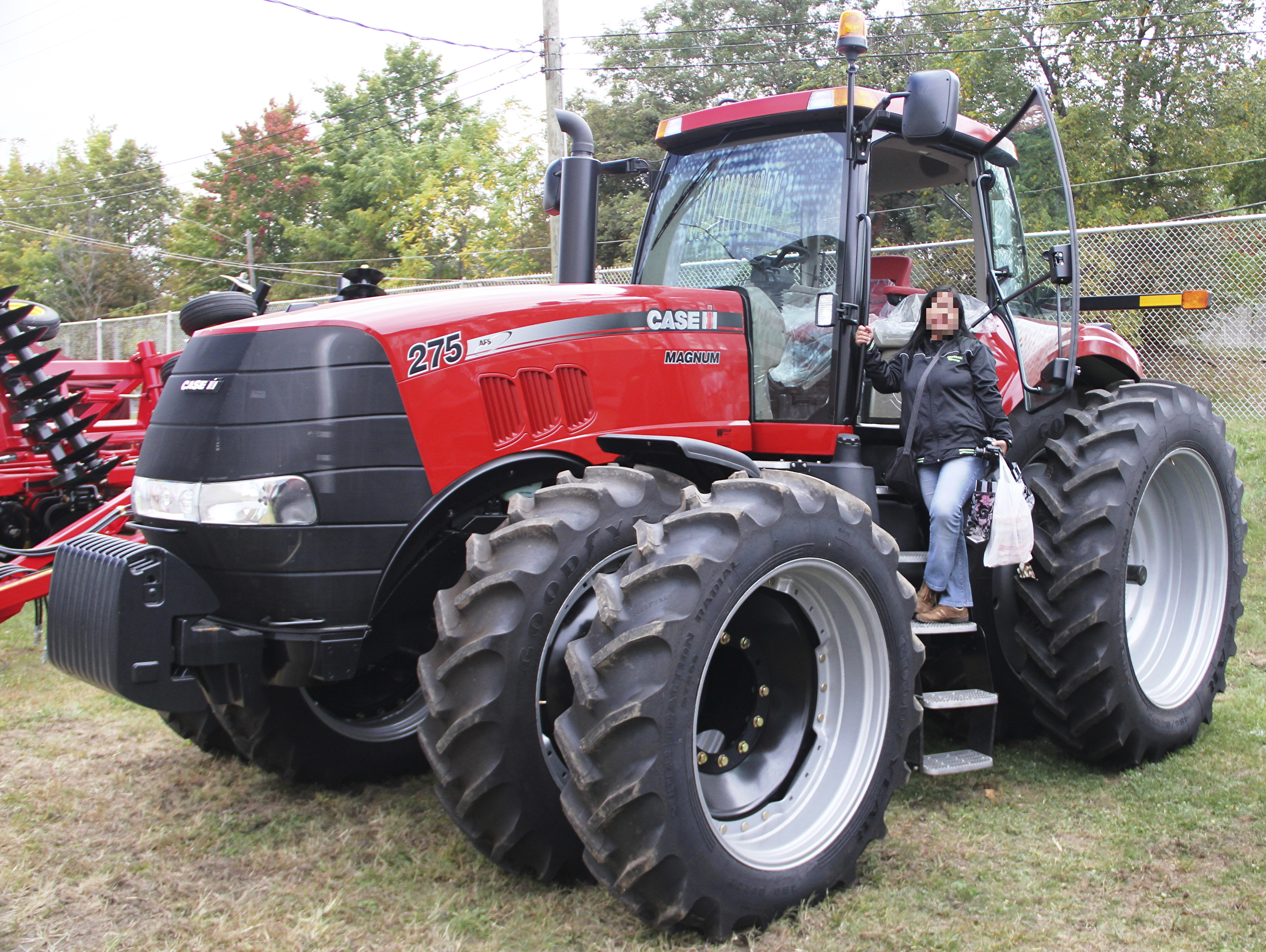 Case IH MAGNUM 275 AFS tractor, Hillsdale County Fair 2010, Hillsdale, MI, USA